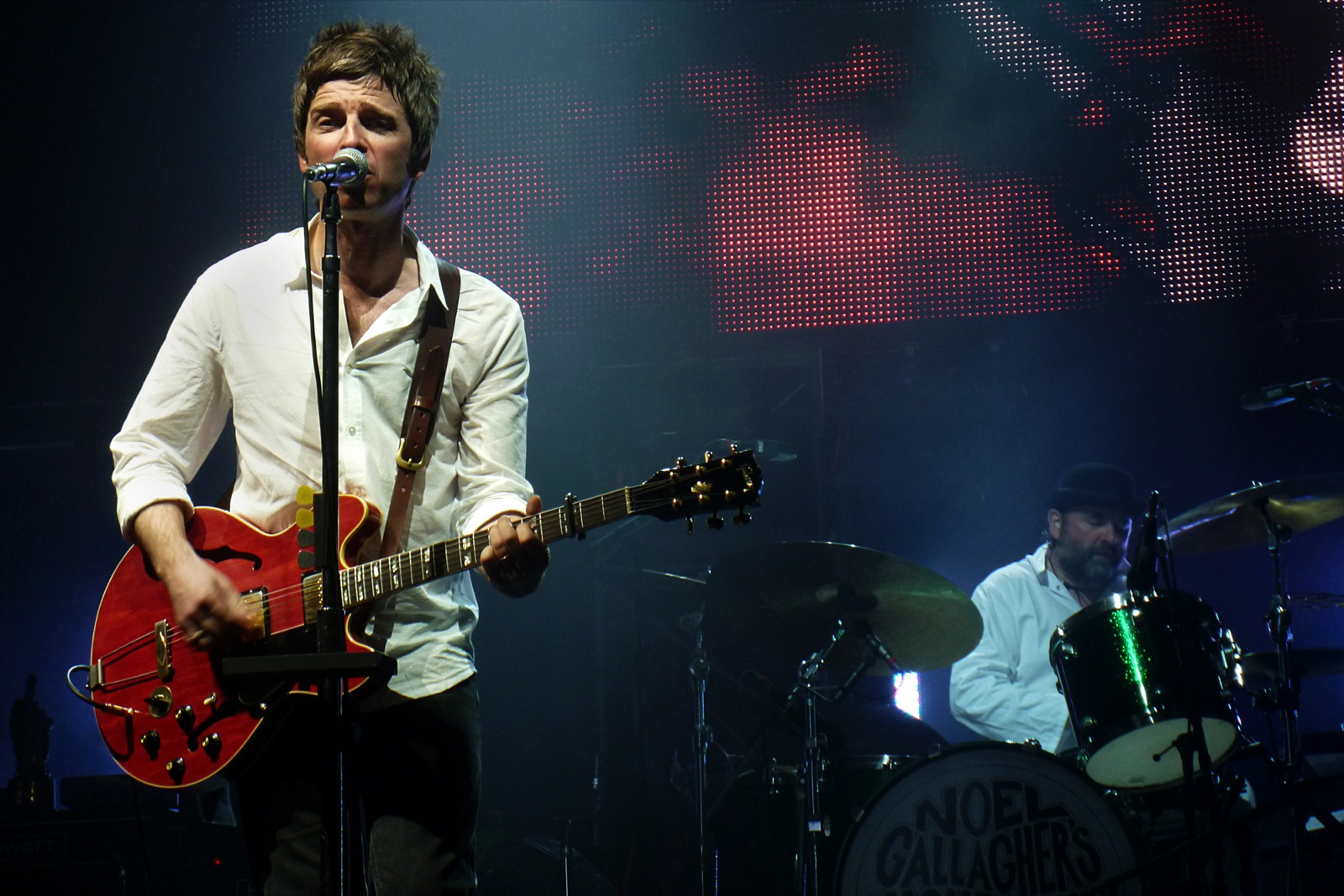 I took these photos on april 10th during the first of the two Noel Gallagher's shows at the "Teatro Metropolitan" in Mexico City. The gig was fucking amazing. I was lucky to be on the second row in front of your majesty Noel Gallagher.